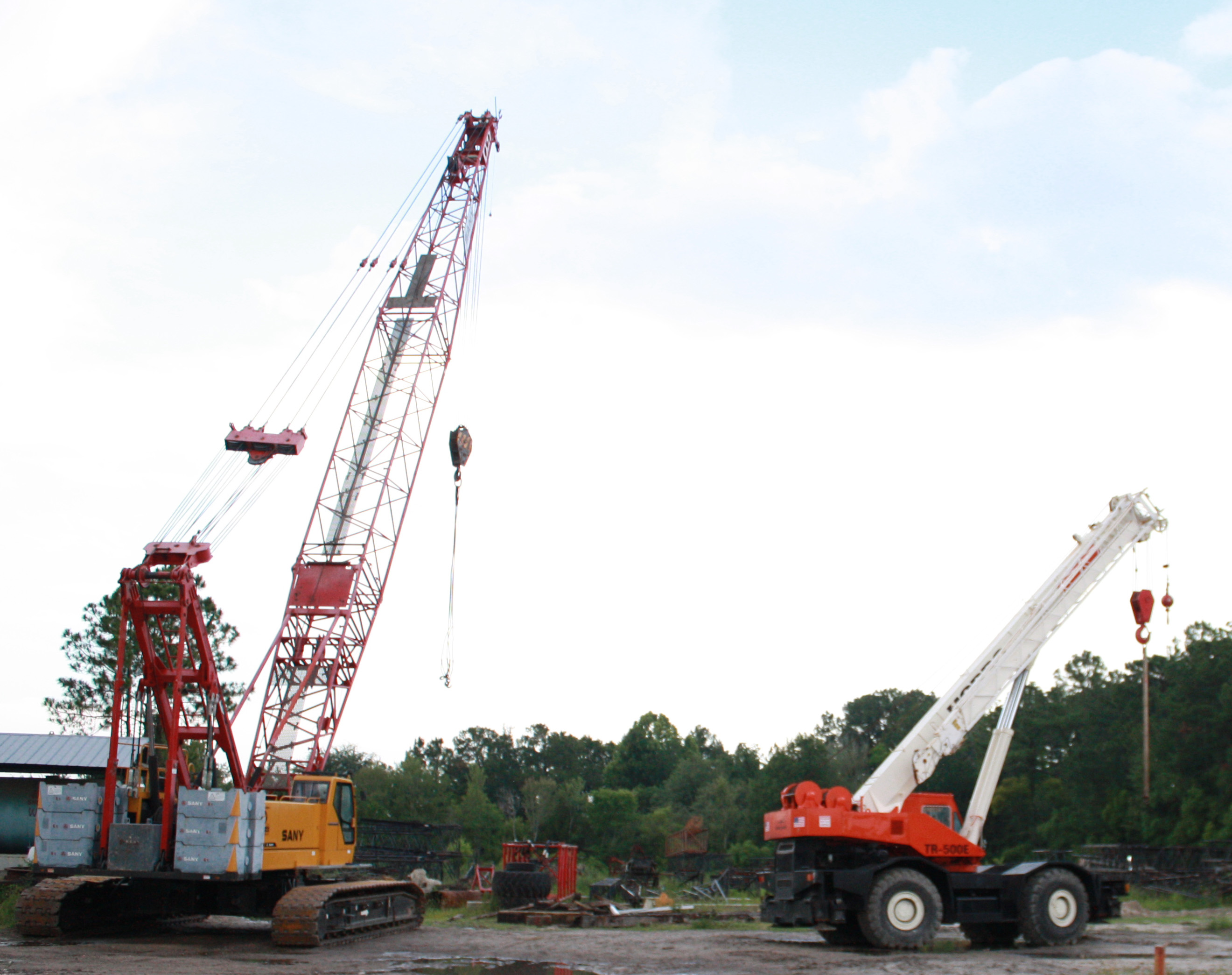 Heavy equipment at MD Moody